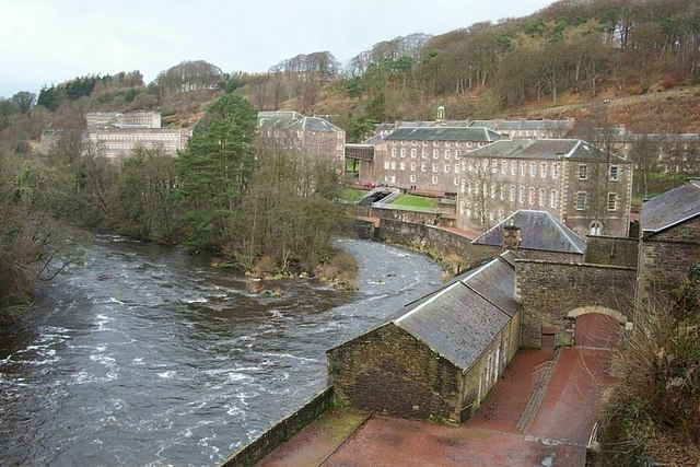 New Lanark World Heritage Centre